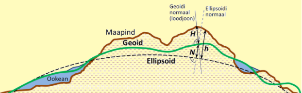 Maaellipsoid